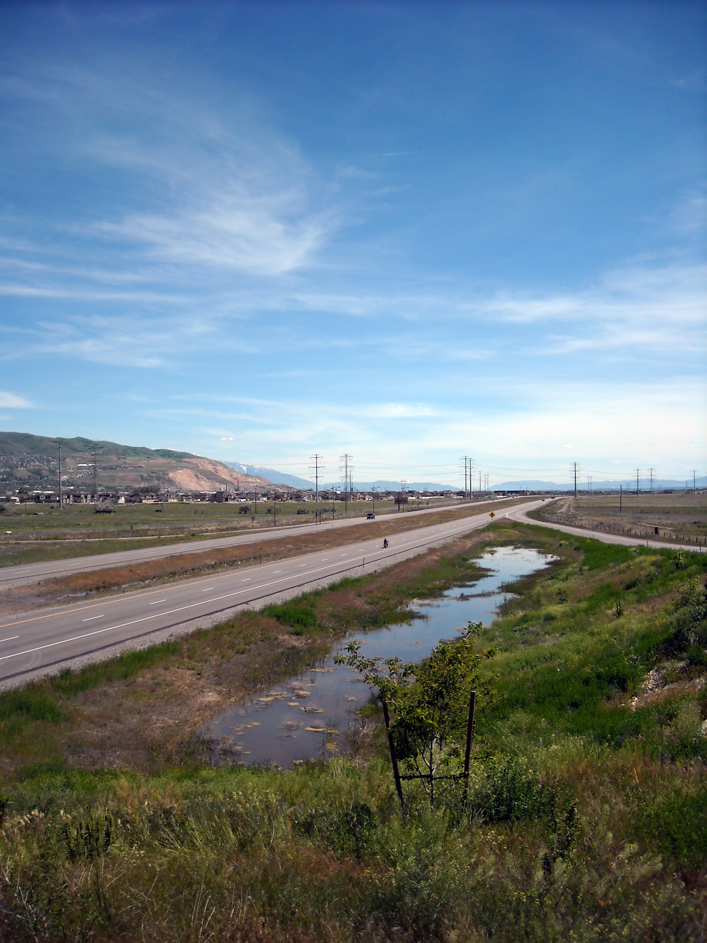 Looking south on Legacy Parkway from 500 South in Bountiful.